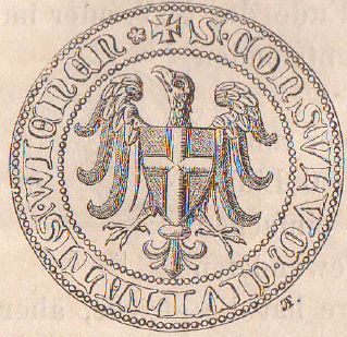 The seal of Vienna.